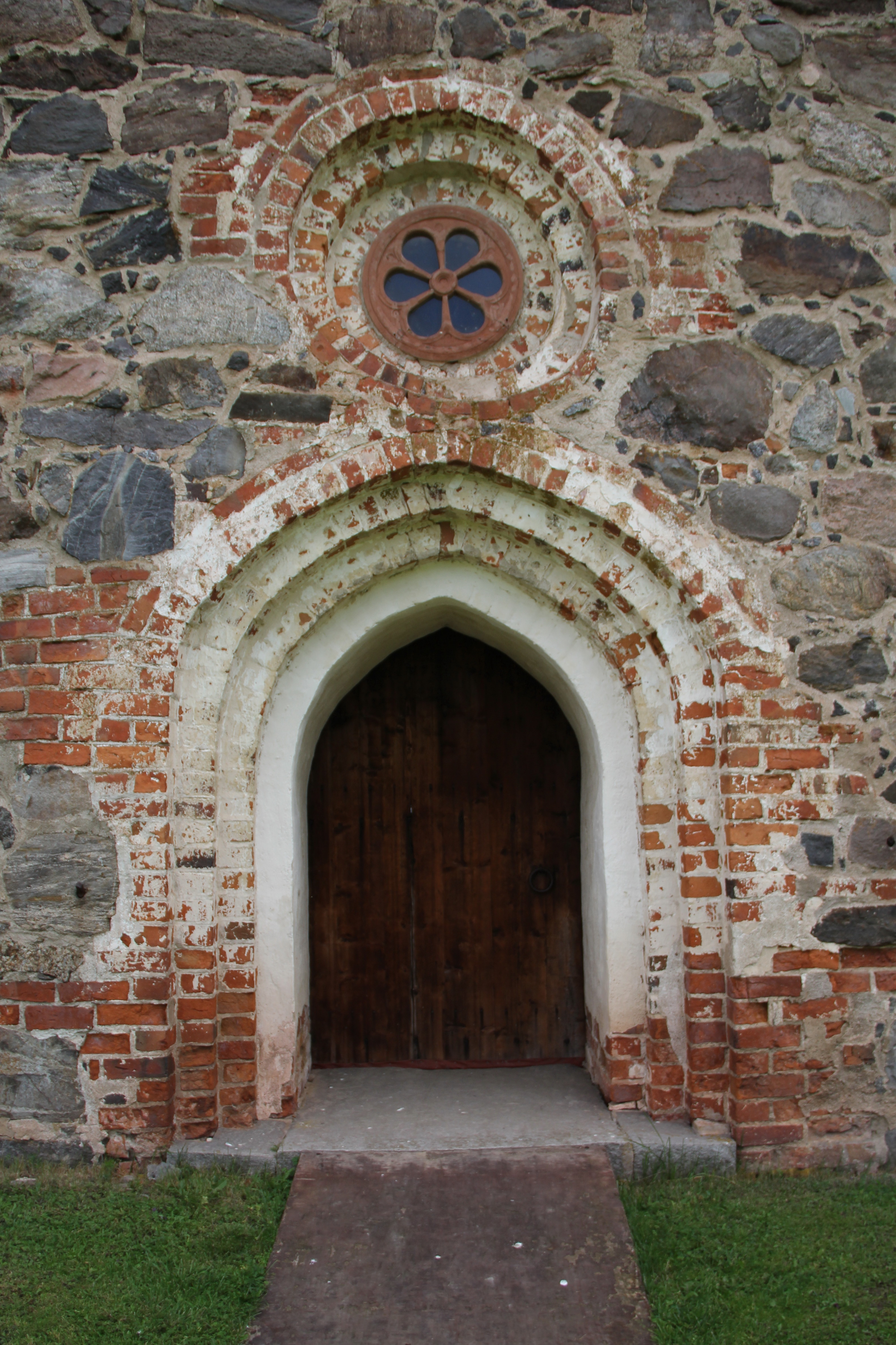 Isokyrö old church, Isokyrö, Finland. - Western facade portal and round window. In original shape.